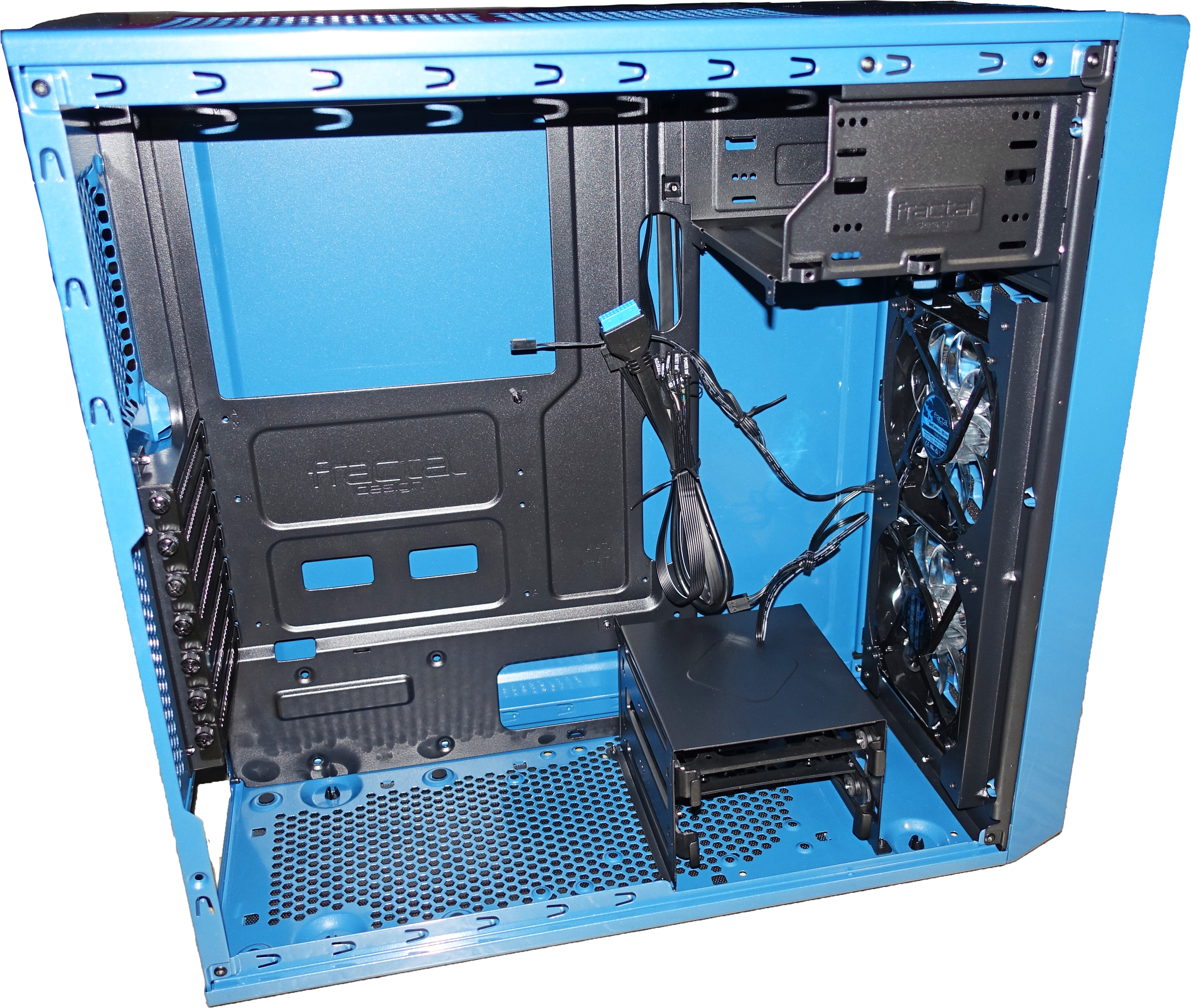 Fractal Design Focus G ATX computer case, blue colored.